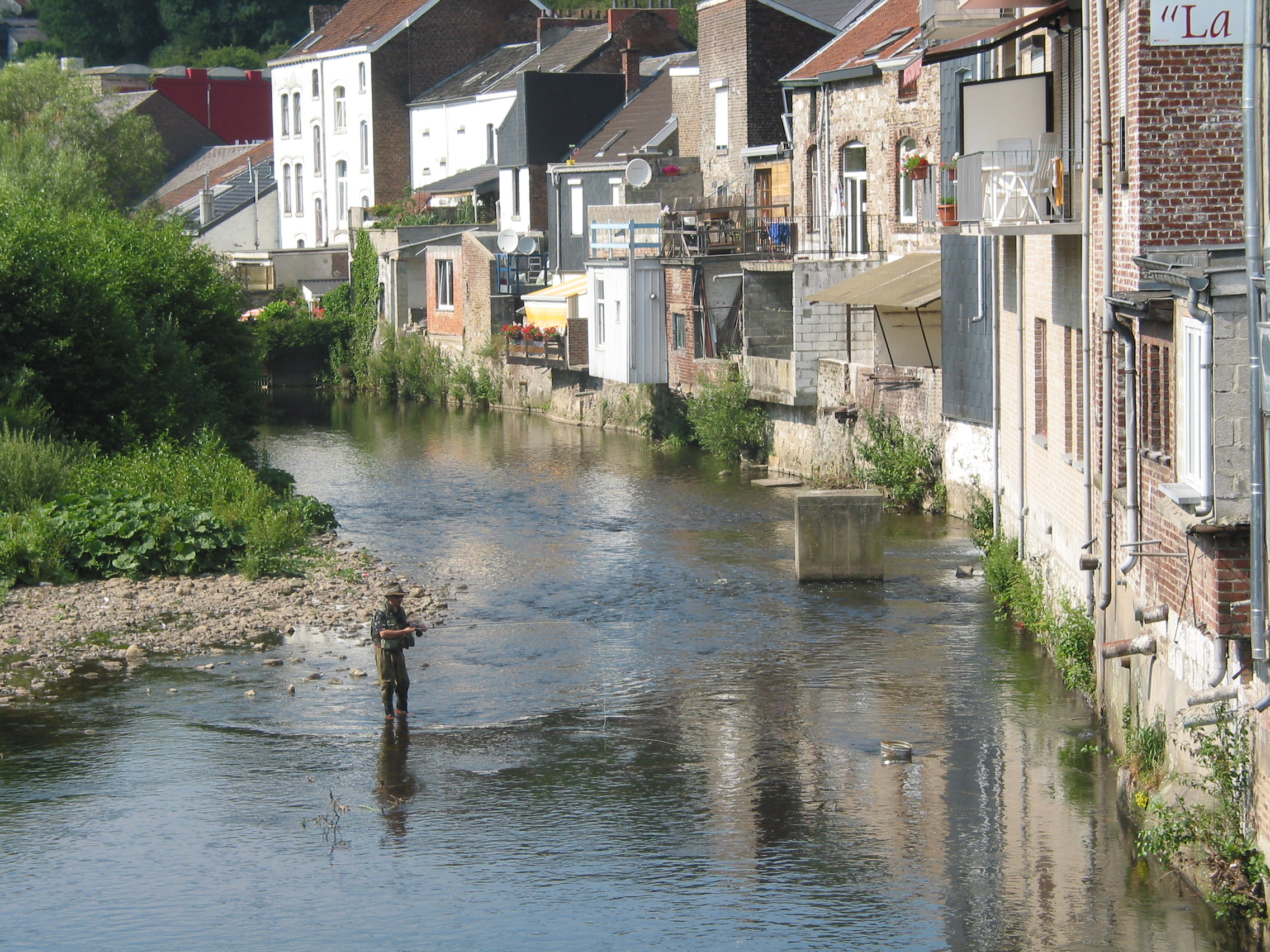 Limbourg (Belgium), the lower part of the city and the Vesdre river.